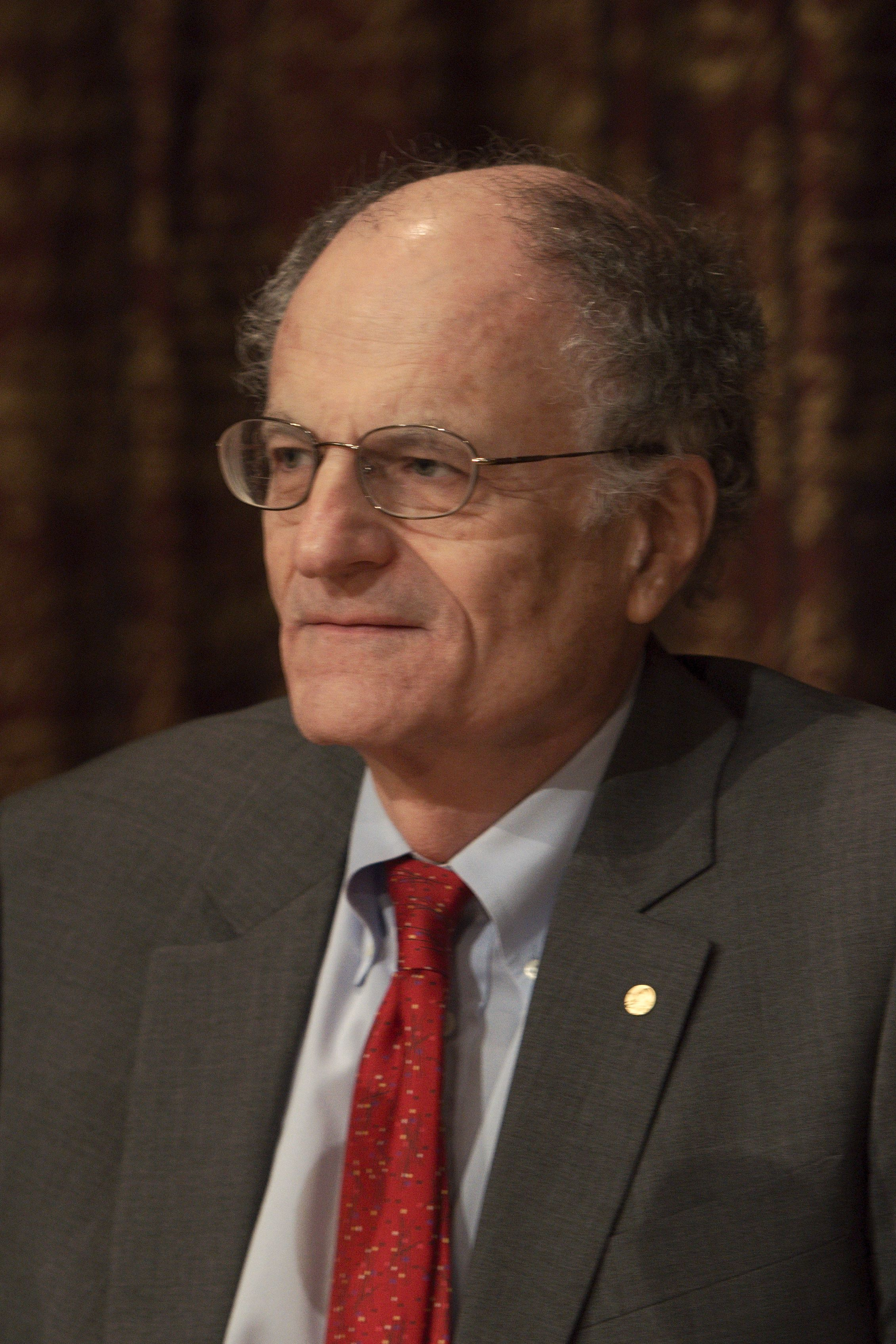 Nobel Prize 2011, press conference with the laureates of the Nobel prizes in chemistry and physics and the memorial prize in economic sciences at the Royal Swedish Academy of Sciences.